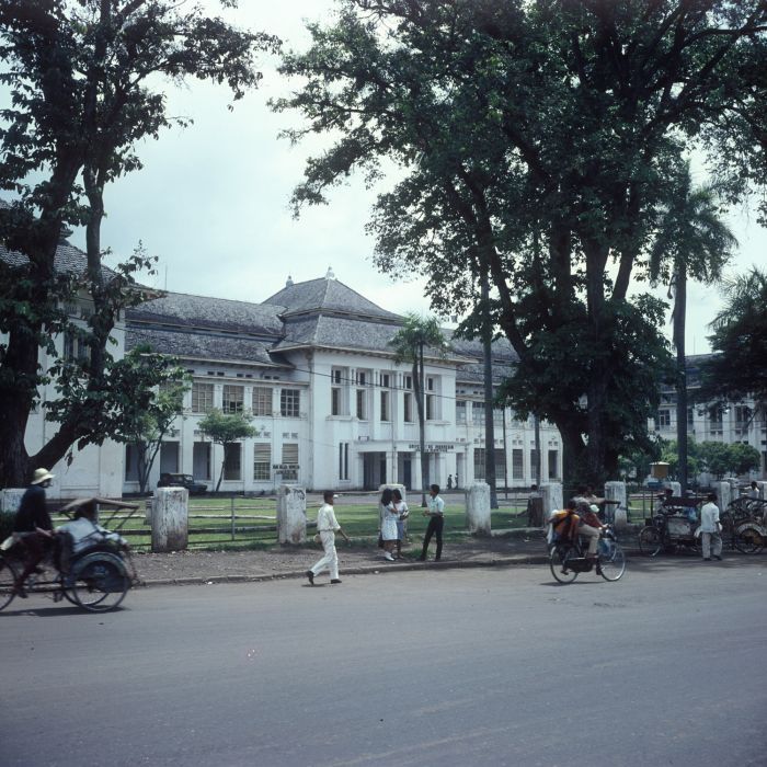 The Universitas Indonesia's Faculty of Medicine